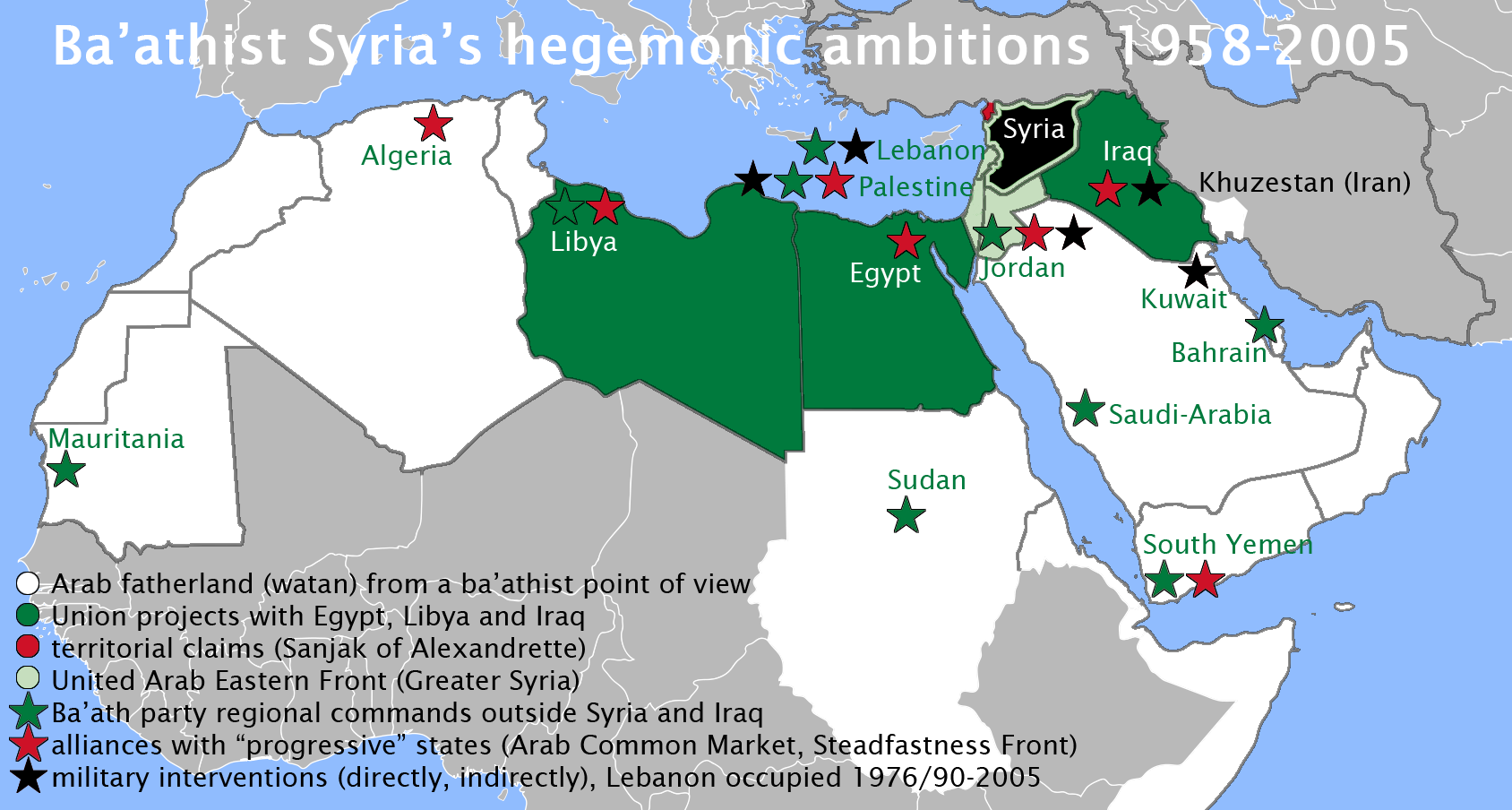 Ba'thist Syria's hegemonic ambitions 1958-2005